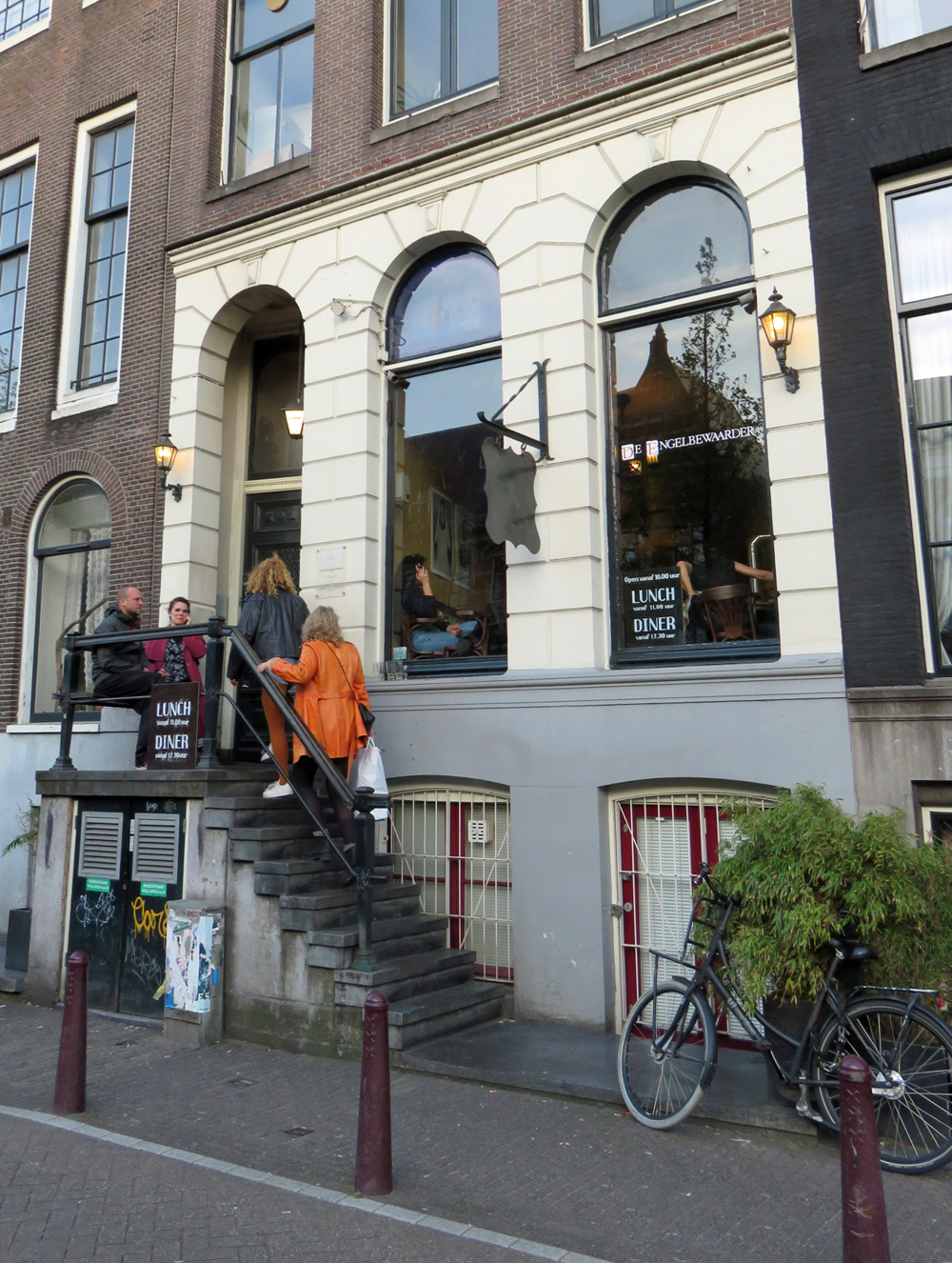 Cafe De Engelbewaarder (est. 1971) at Kloveniersburgwal 59 in Amsterdam